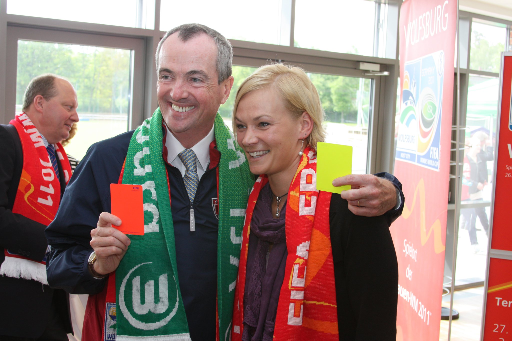 U.S. Ambassador to Germany Philip D. Murphy poses with German World Cup-final referee Bibiana Steinhaus, in Wolfsburg, Germany, on July 6, 2011. [State Department photo by Heiko Herold/ Public Domain